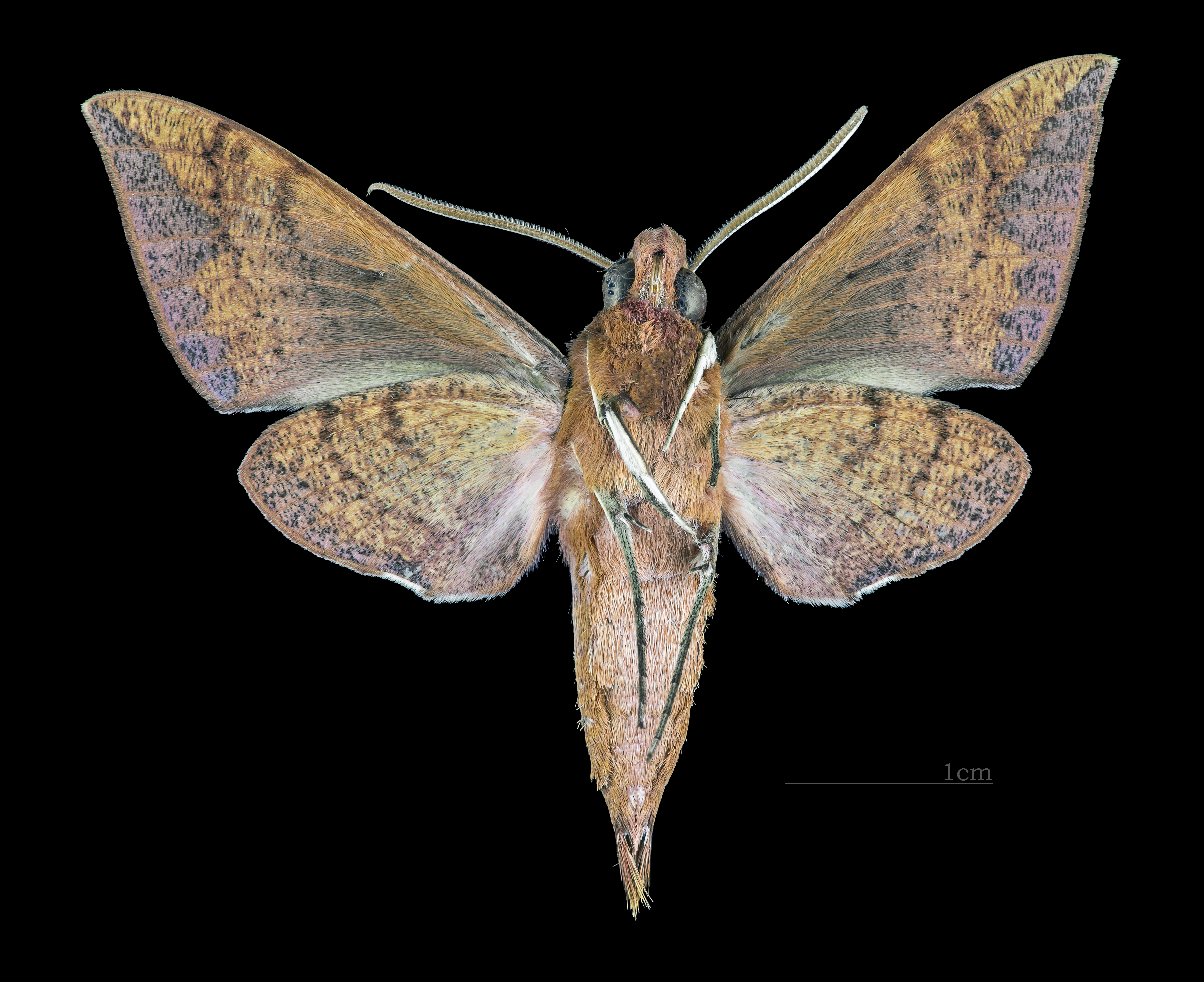 Theretra castanea - △ Ventral side Collection of the Mathematician Laurent Schwartz